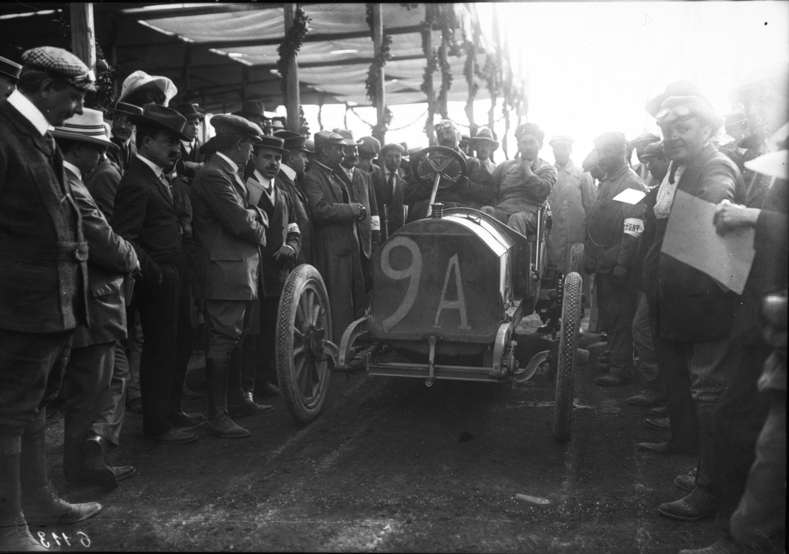 Enrico Maggioni in his Brixia-Züst at the 1908 Targa Florio.